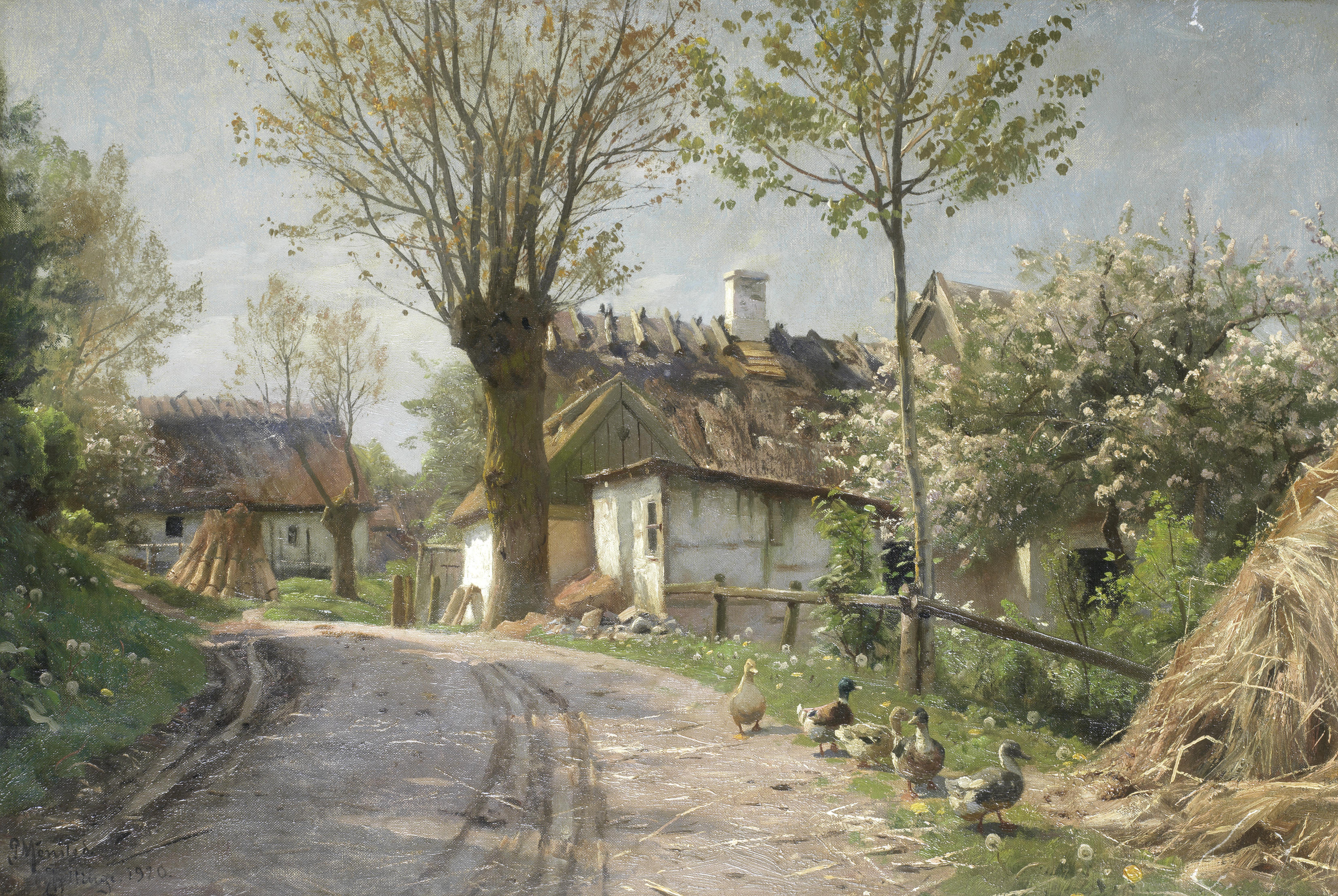 A country lane, Jyllinge